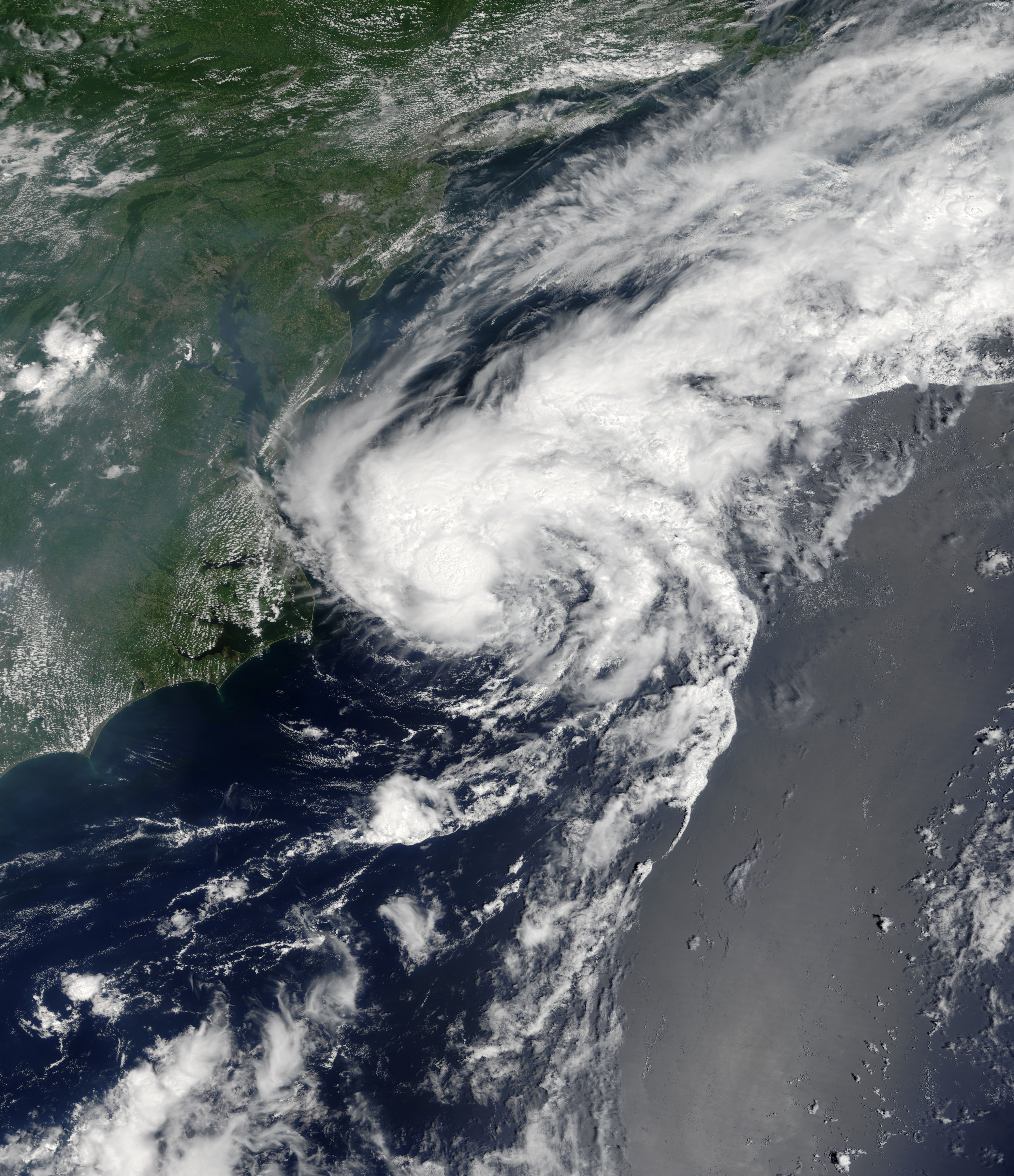 Tropical Storm Beryl formed in the northwestern Atlantic on July 18, 2006, roughly 200 kilometers (120 miles) southeast of North Carolina’s Outer Banks. The tropical depression gradually gathered just enough power to reach storm status and become the second named storm system of the 2006 Atlantic hurricane season. As of July 20, it had gained only slightly more strength and was headed north towards New York City. Forecasts at the time predicted that the storm would continue to travel north, but then curve away to the east before getting close to land. The storm was also not expected to become strong enough to be classified as a hurricane. This photo-like image was acquired by the Moderate Resolution Imaging Spectroradiometer (MODIS) on the Terra satellite on July 19, 2006, at 11:15 a.m. local time (15:15 UTC). The storm had a very basic swirling shape embedded within a larger train of clouds stretching northeast. These clouds are associated with a cold front over the Atlantic Ocean. Sustained winds in the storm system were estimated to be around 95 kilometers per hour (60 miles per hour) around the time the image was captured, according to the University of Hawaii’s Tropical Storm Information Center.